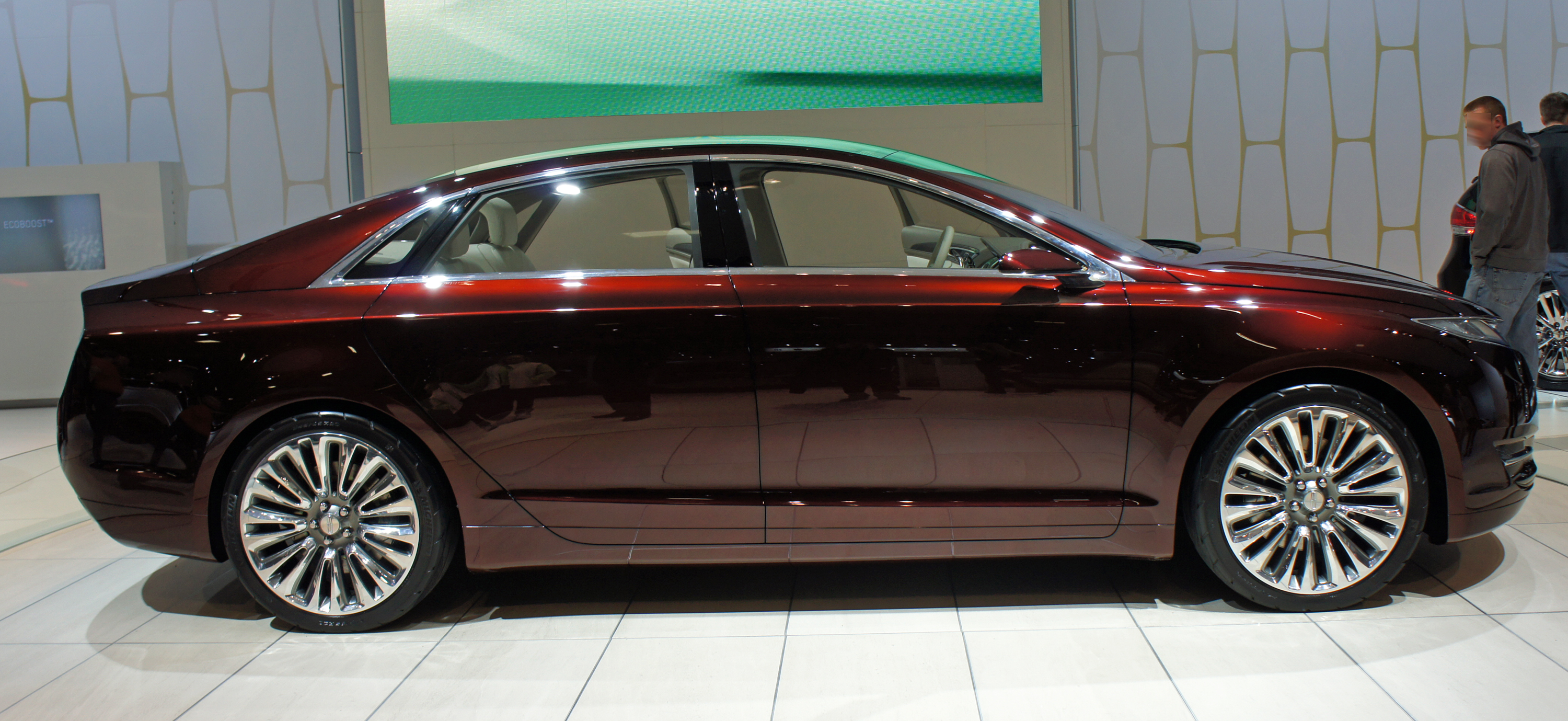 Lincoln MKZ concept exhibited at the 2012 Washington Auto Show (D.C.)